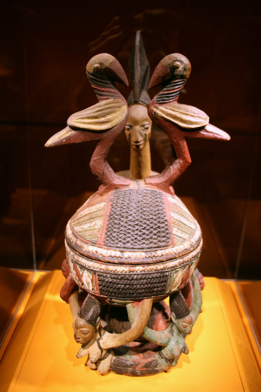 Bowl with Figures, Artist: Olowe of Ise (c. 1875-c. 1938), Yoruba peoples, Ekiti region, Nigeria, Early 20th century, Wood, paint Sculptor to kings, Olowe of Ise is still honored among the Yoruba. His praise song says that he could carve iroko wood as though it was as soft as a gourd. The delicacy and dramatic composition of this bowl exemplify his talent, which embodies the standards of Yoruba art in iconography and proportions yet pushes them to their limits and redefines the rules. This prestige bowl, owned by someone of high status, likely held kola nuts, a traditional gesture of hospitality presented to guests and offered to deities during rituals.